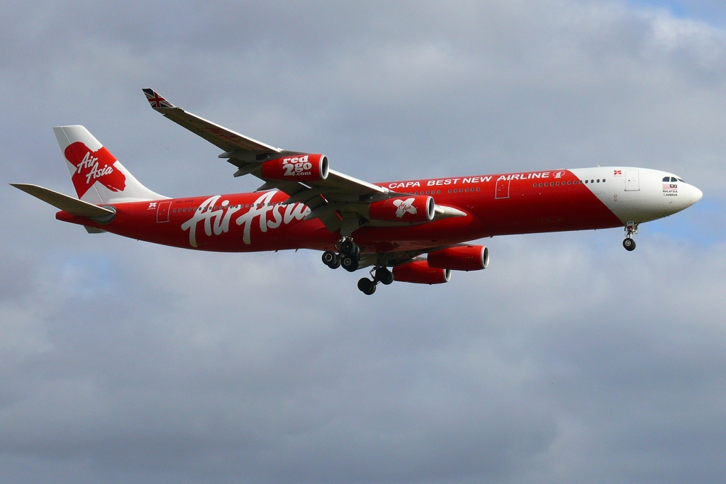 Air Asia X Airbus A340-300 (9M-XAB) approaching Stansted Airport (STN)